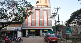 hospital